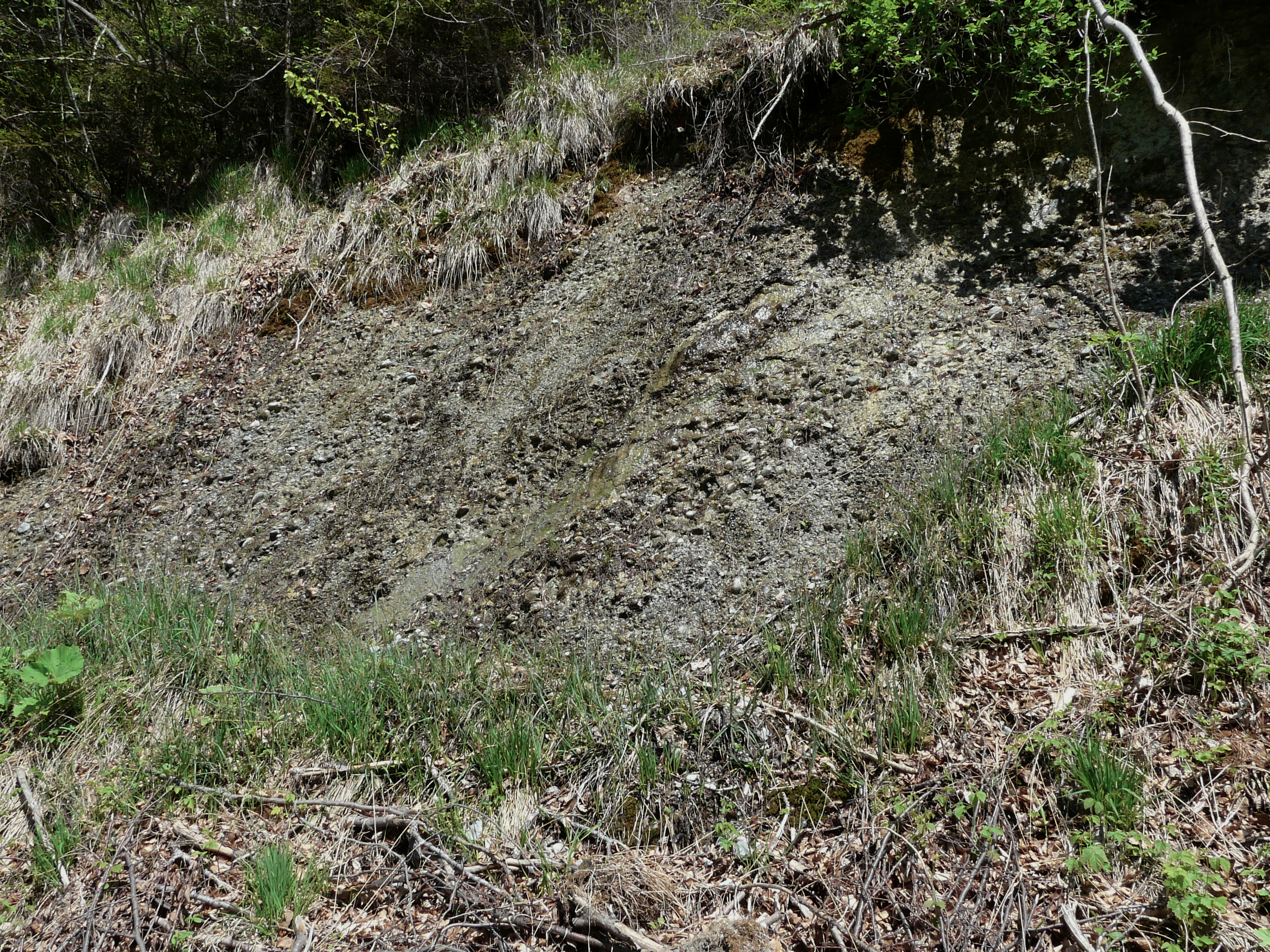 geotope, outcrop, conglomerate, age: Aquitanian - Lower Miocene, Geotop Nummer: 189A015